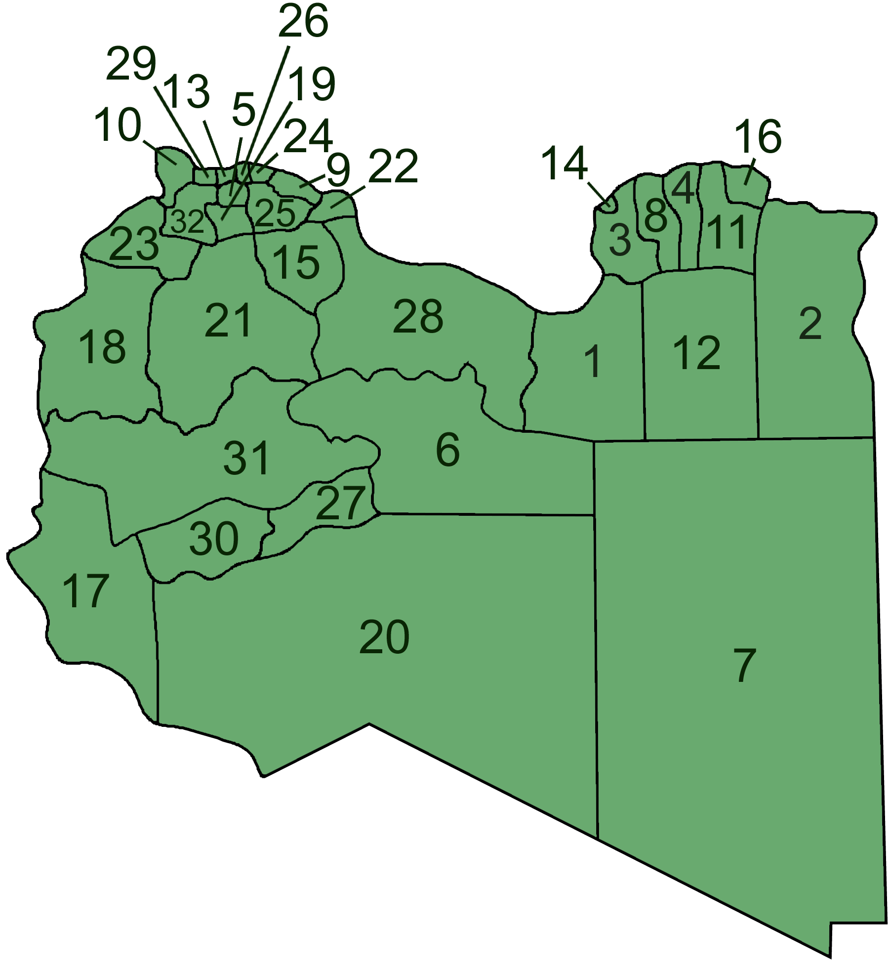 Map of the former (2001 - 2007) thirty-two districts Shabiyah or Districts of Libya, plus three administrative regions. See also: Subdivisions of Libya.